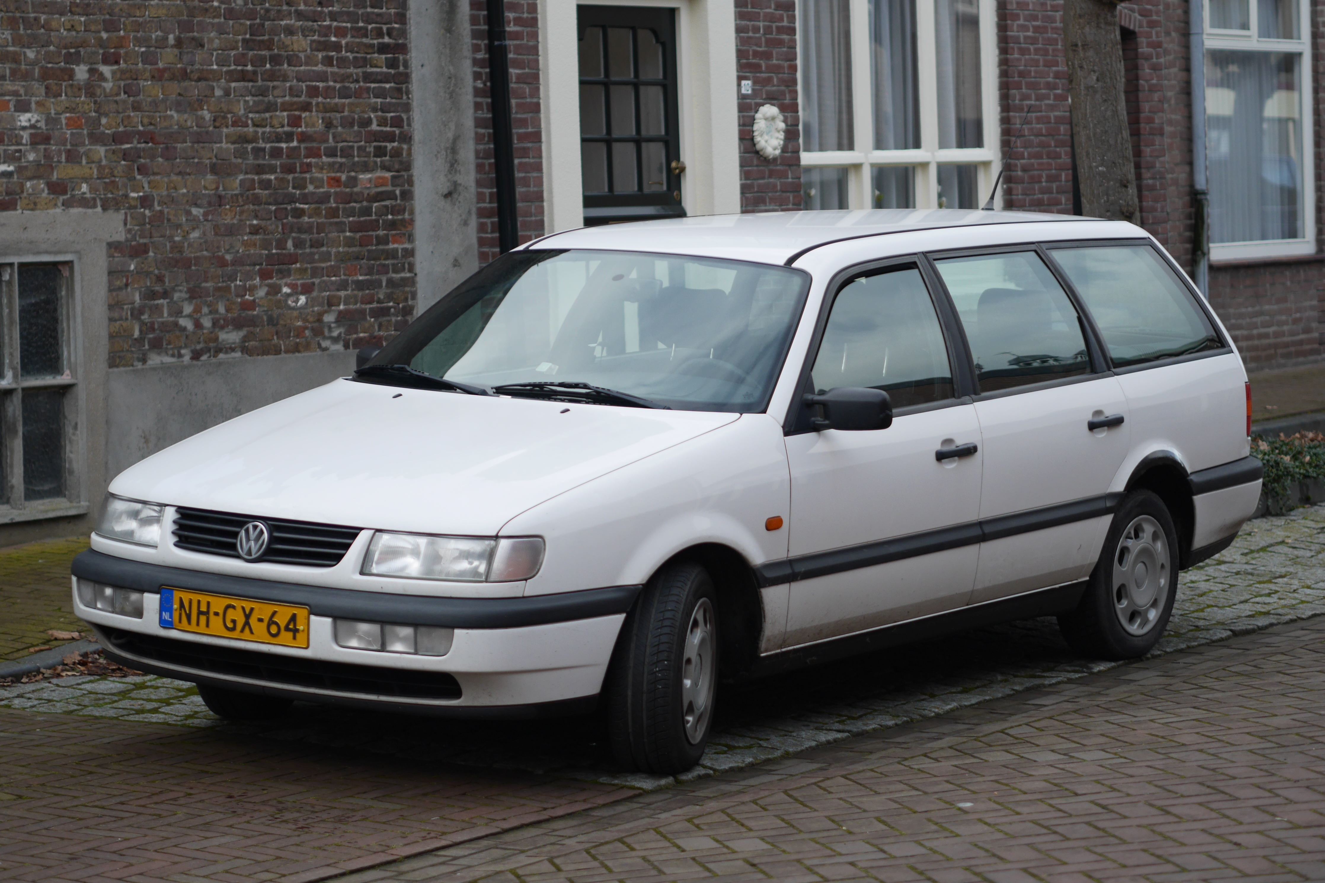 Volkswagen Passat Variant